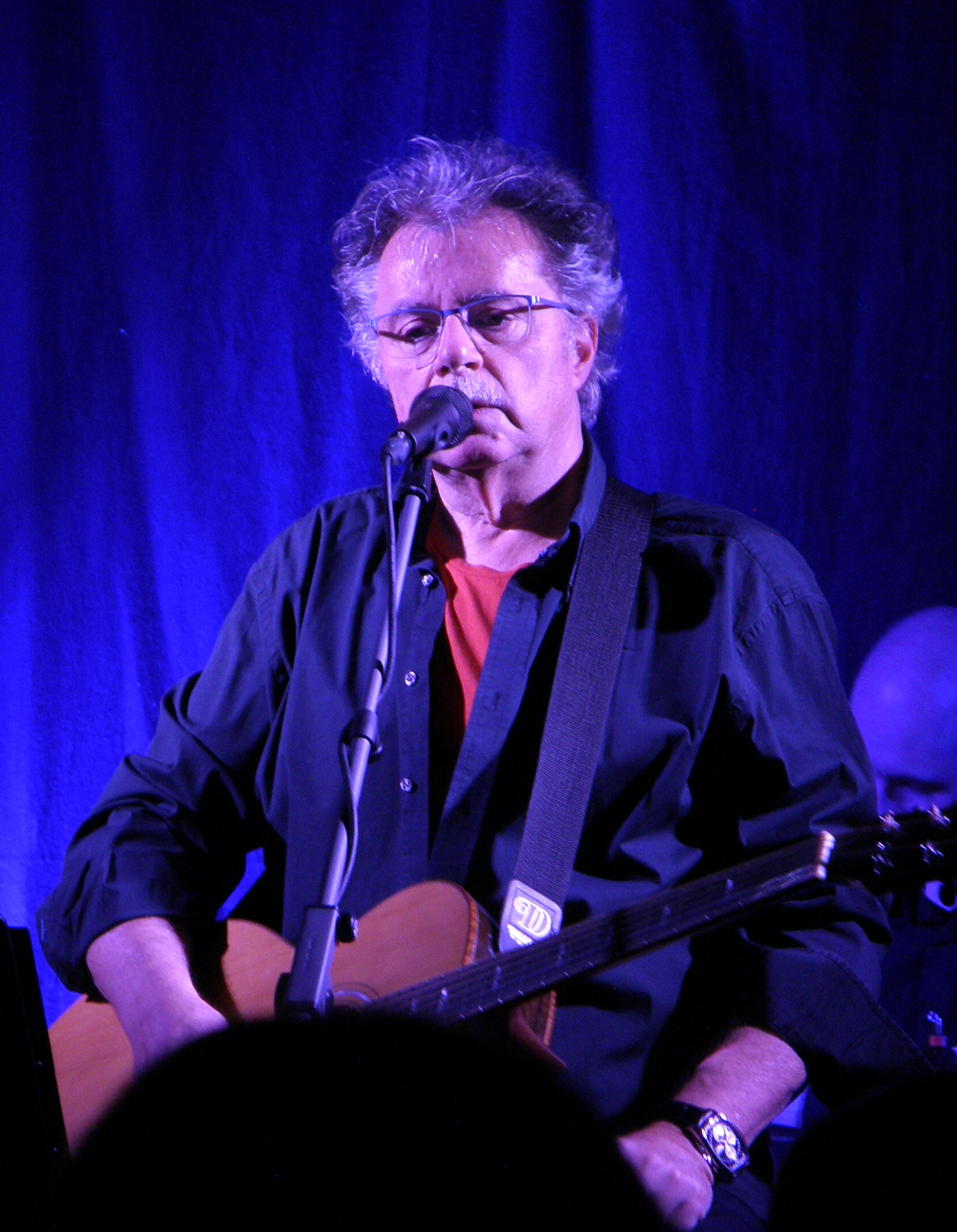 Pavol Hammel performing in Trnava, 14 April 2016.